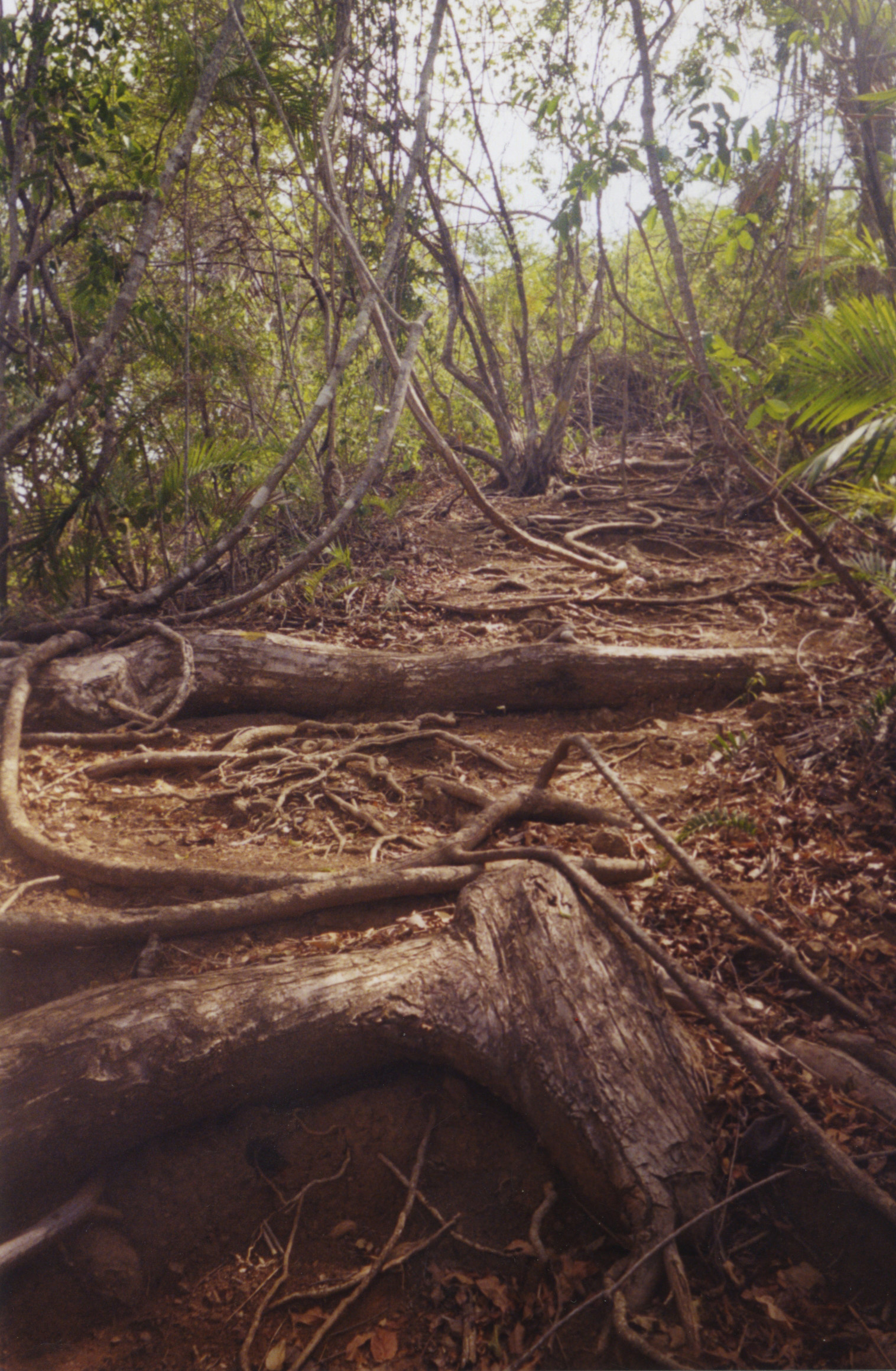 the Costa-Rica rainforest in 2003 own work